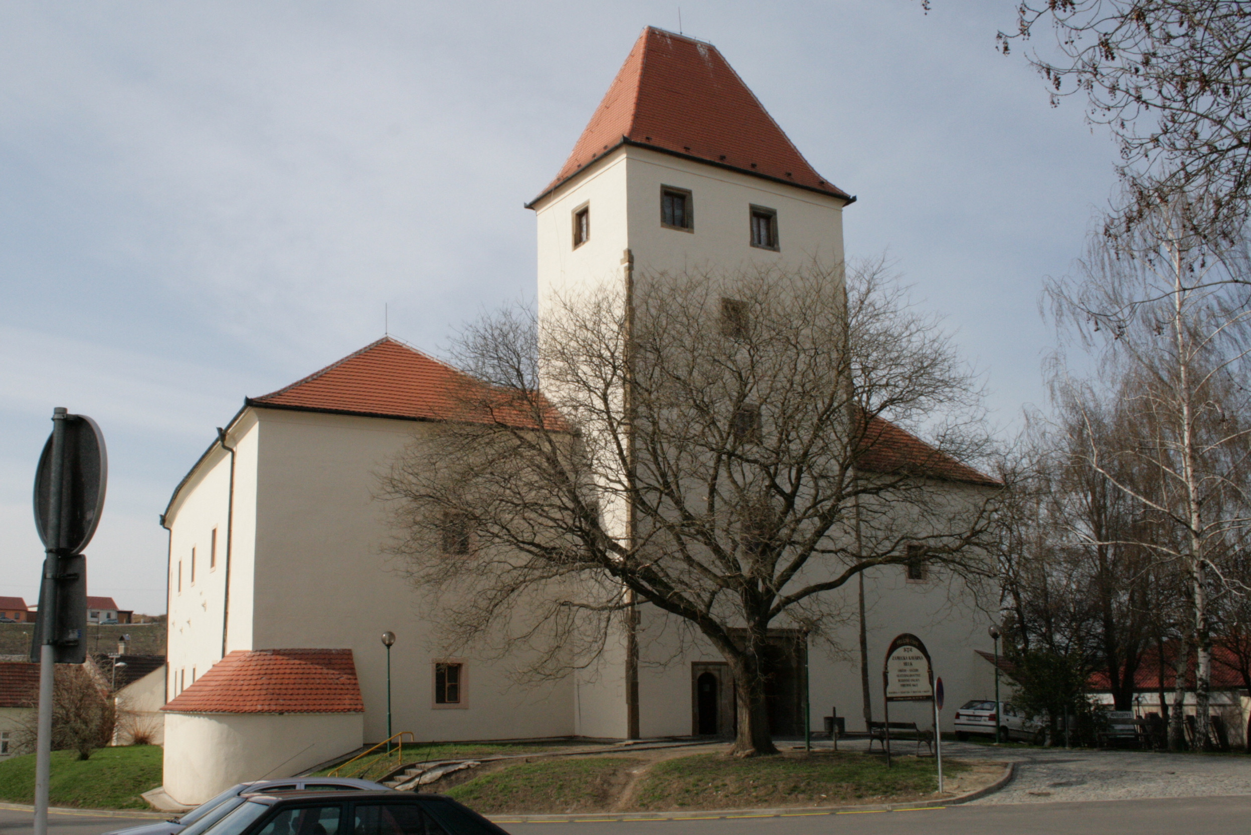 Fort at Hluk (Uherské Hradiště district, Czech republic)